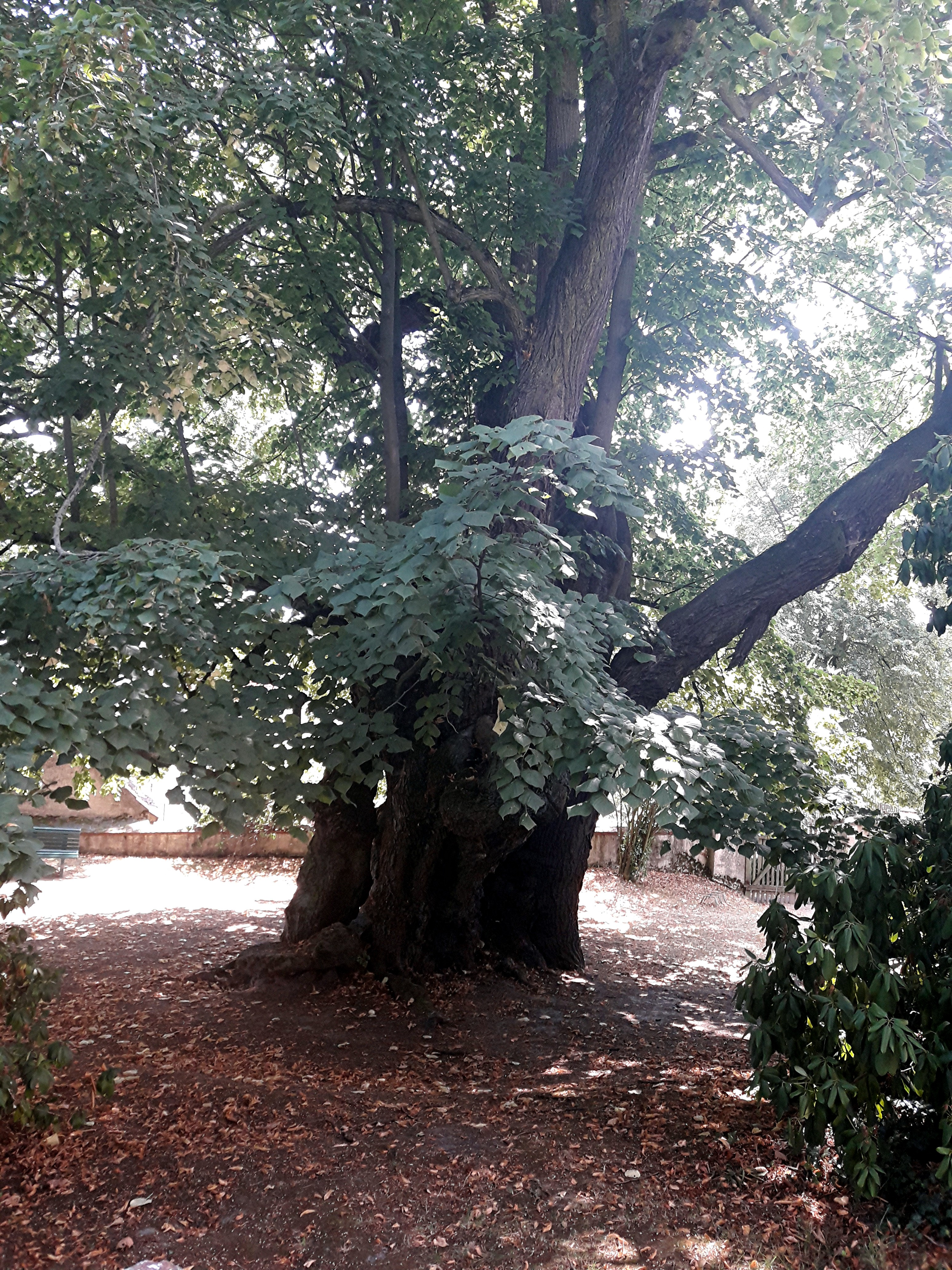 linden of court in Collm